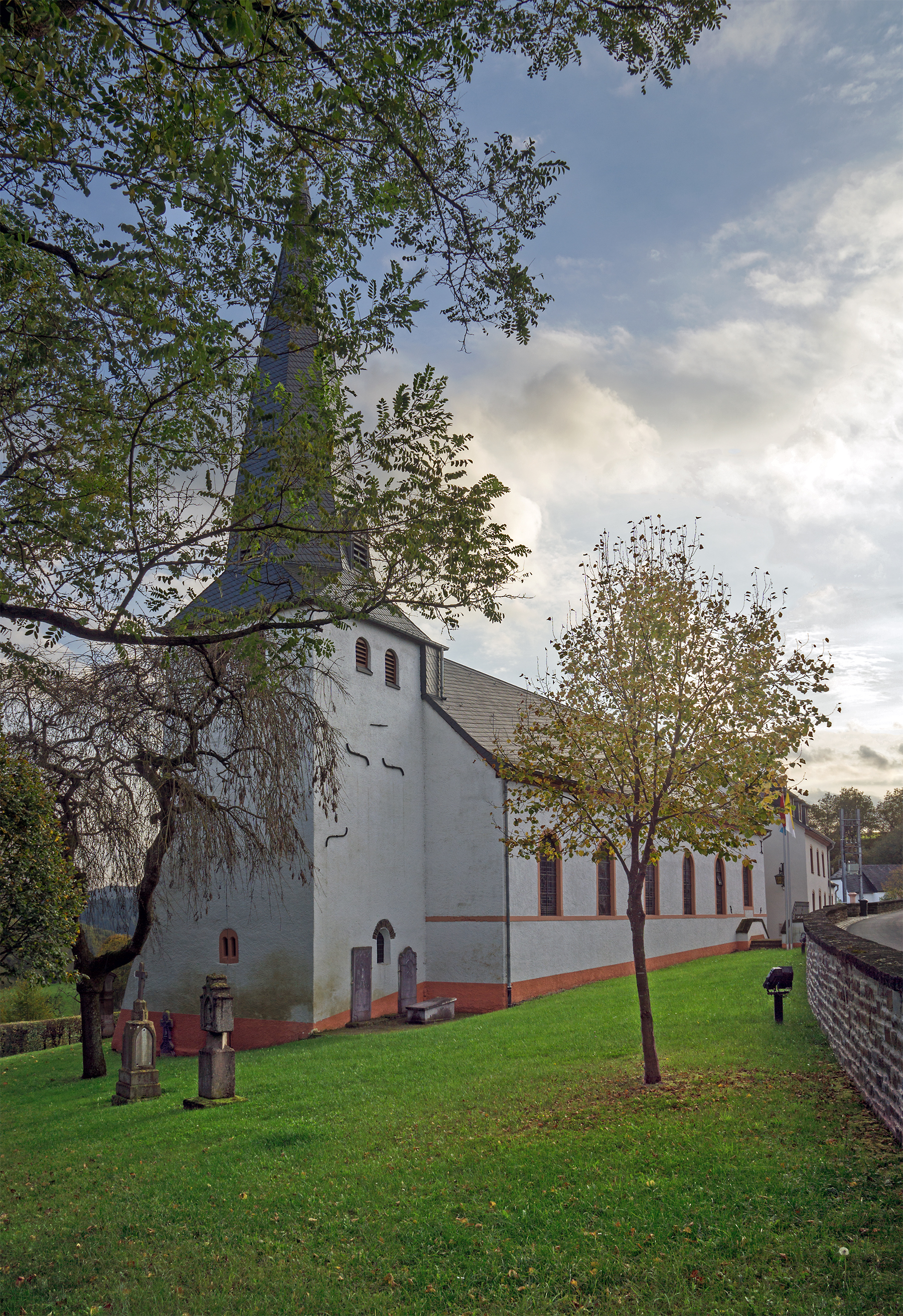 Church of Pintsch